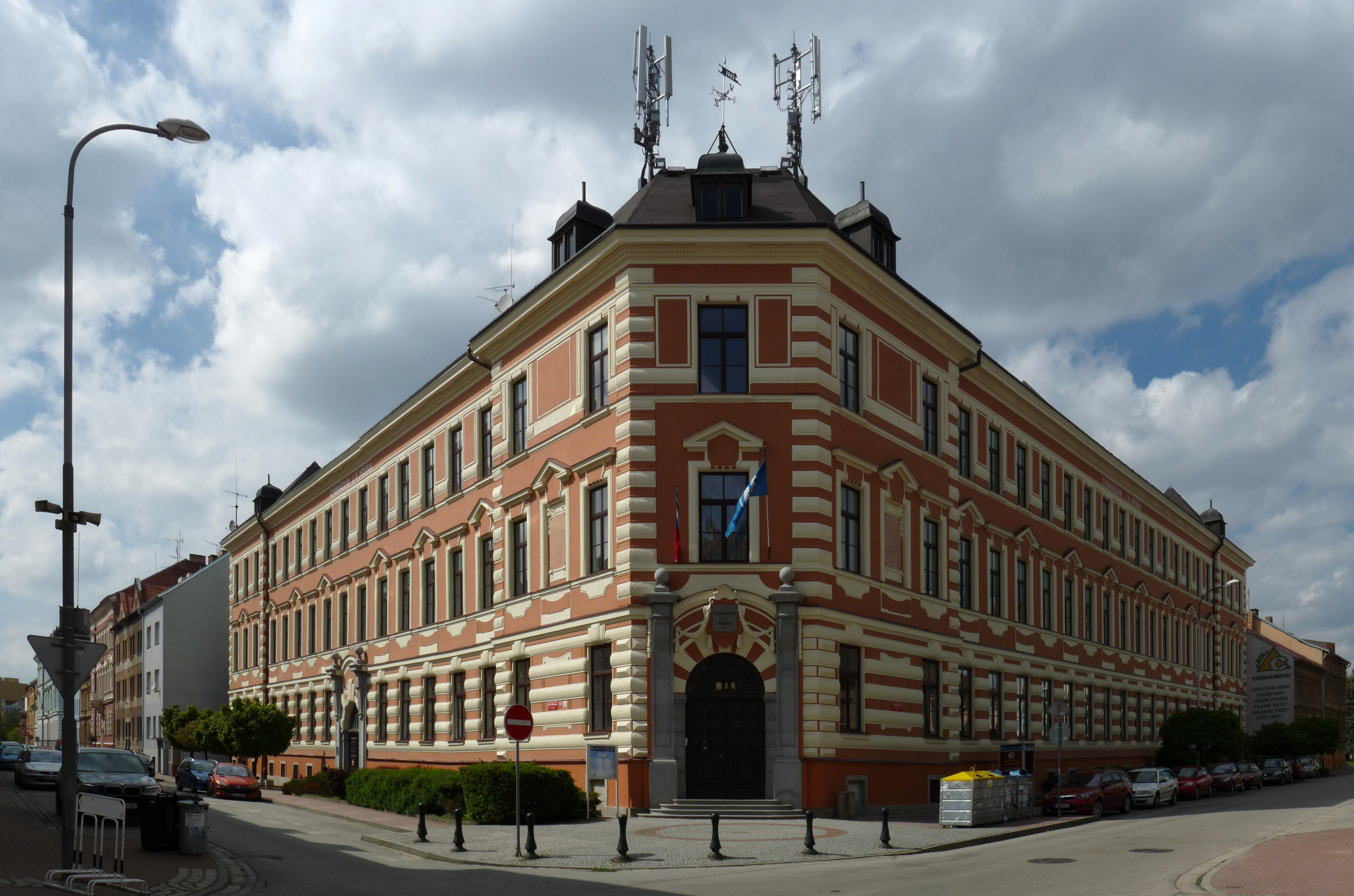 Grammar School J. V. Jirsíka in the city of České Budějovice, South Bohemian Region, Czech Republic.